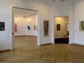 A look inside the exhibition rooms from: "Horst Hussel - Gouachen und Zeichnungen" that took place in January and February 2010 in the Galerie Pankow Berlin.